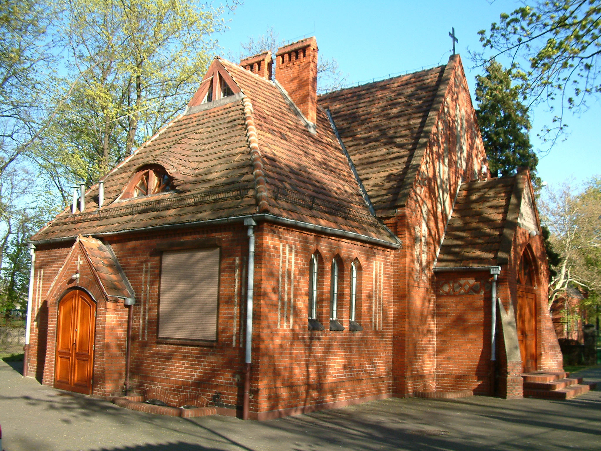 Chapel of Baptists in Poznań